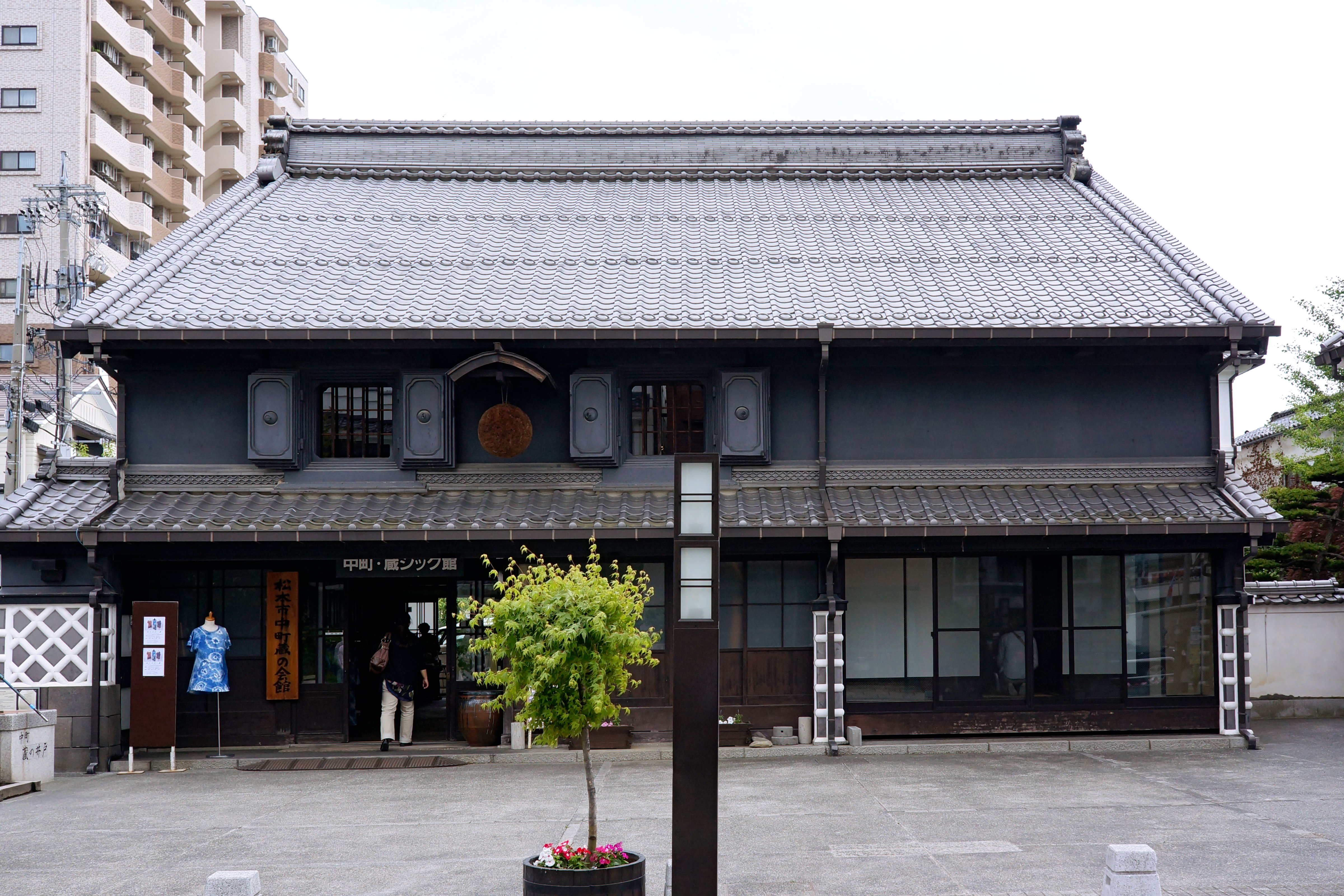 At Nakamachi street in Matsumoto, Nagano prefecture, Japan.